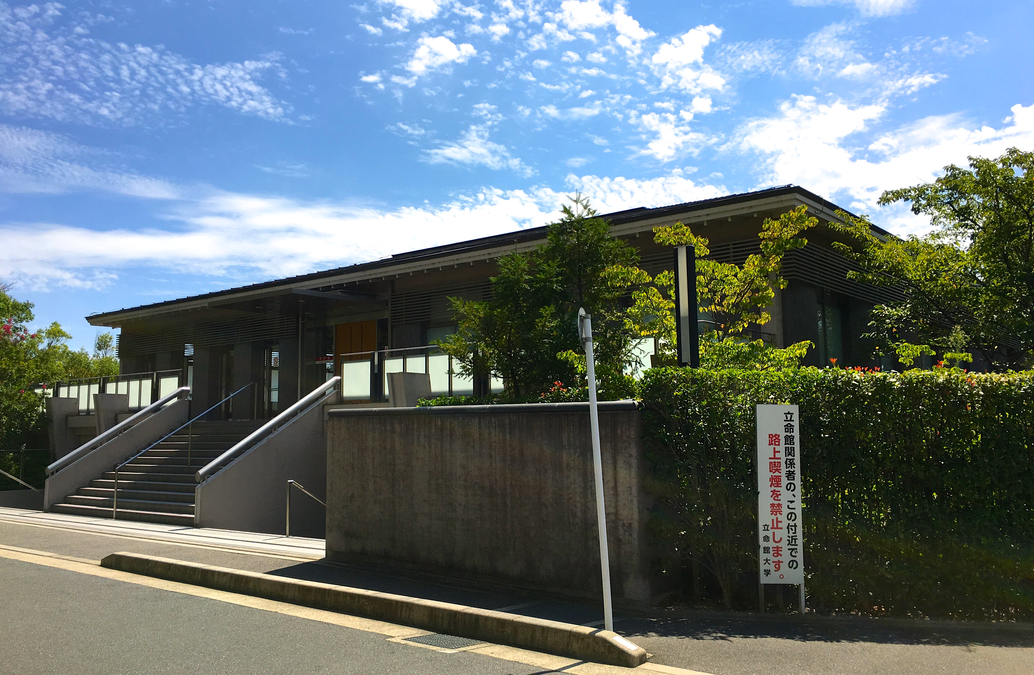 The photo was taken in Kyoto on September 10, 2016.